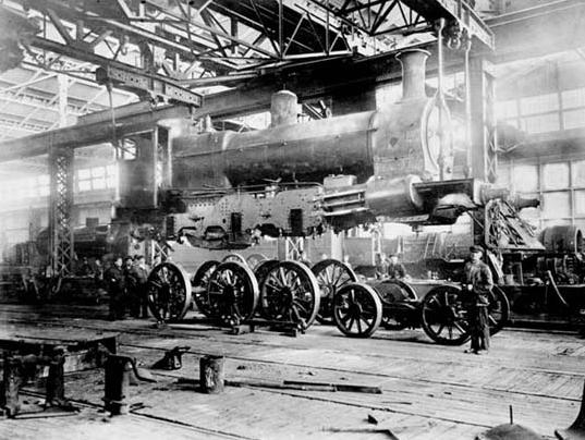 Interior, Bendigo Workshops